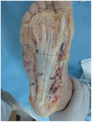 Figure 1. Axial view of the plantar aponeurosis. Figure 1. Axial view of the plantar aponeurosis. LP, lateral part; CP, central part; MP, medial part; L, length; W, width.